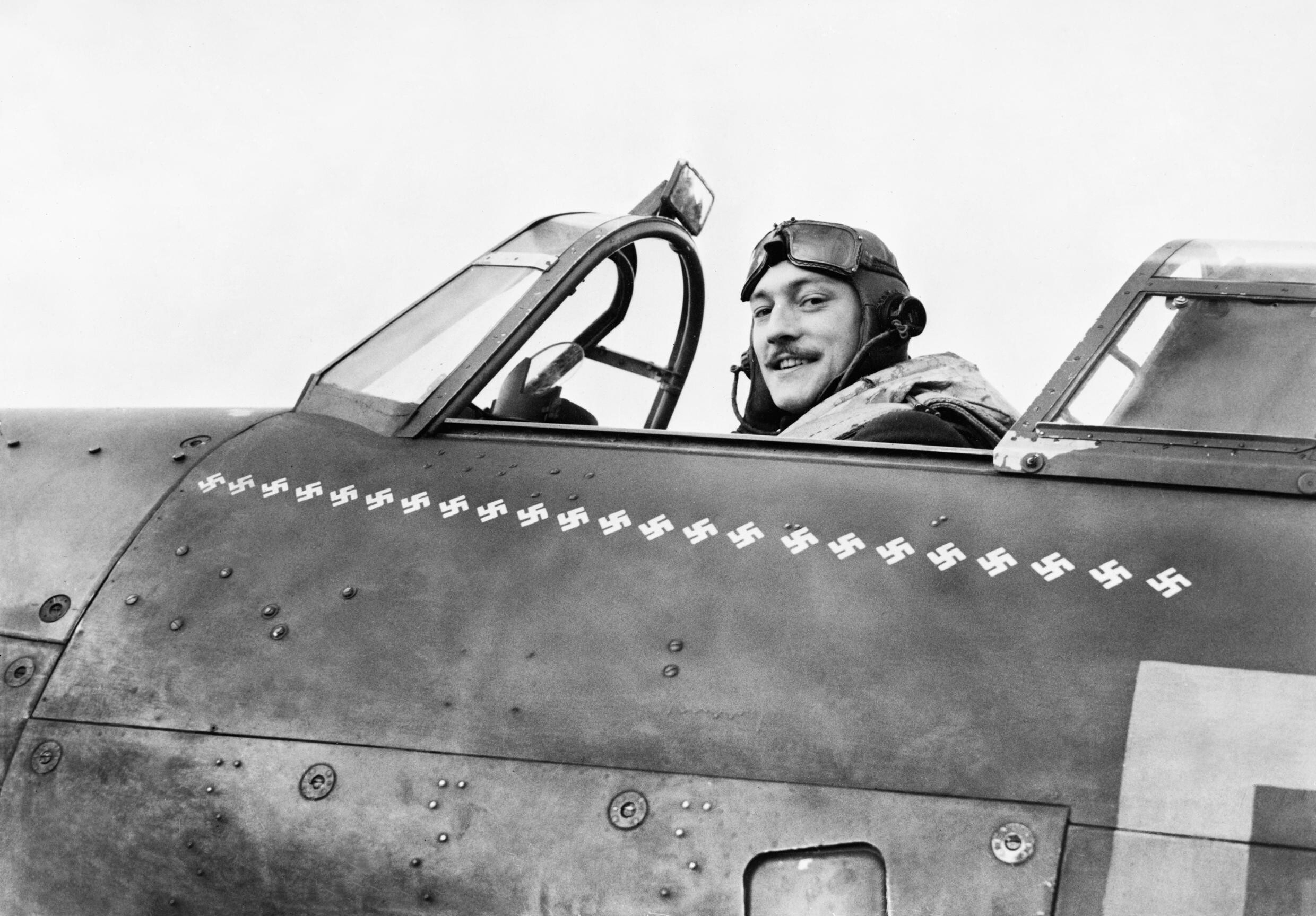 Squadron Leader Robert Stanford Tuck, commanding No. 257 Squadron, in the cockpit of his Hawker Hurricane at Martelsham Heath, November 1940. Squadron Leader Robert Stanford Tuck, commanding No. 257 Squadron, in the cockpit of his Hawker Hurricane at Martelsham Heath, November 1940.